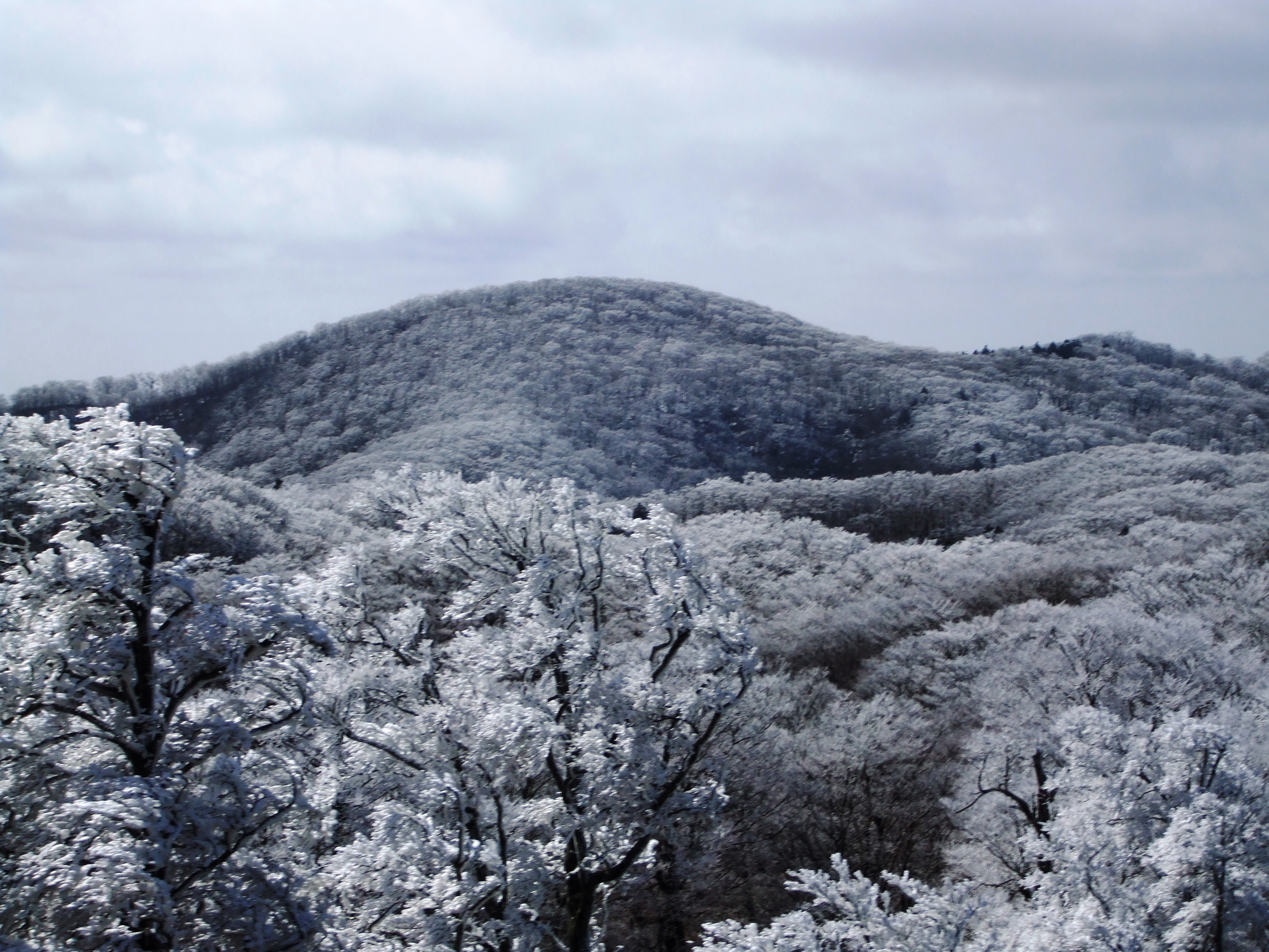 Mount Myōjin seen from the east. Taken from Mount Hinokizukaokumine.